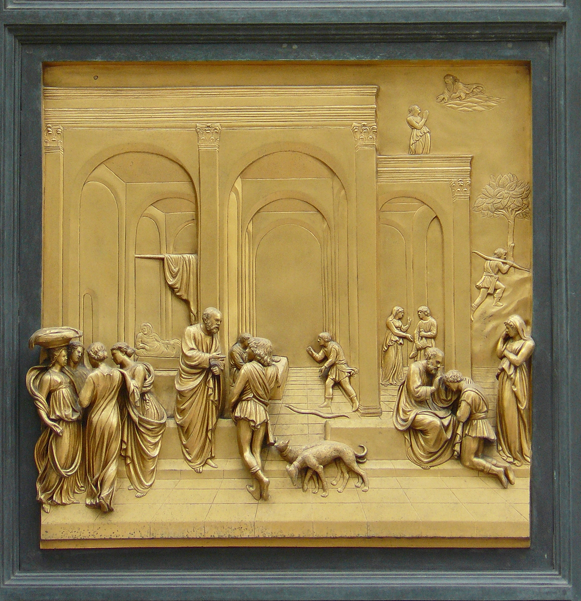 A part of the Ghiberti's Porta del Paradiso, Firenze